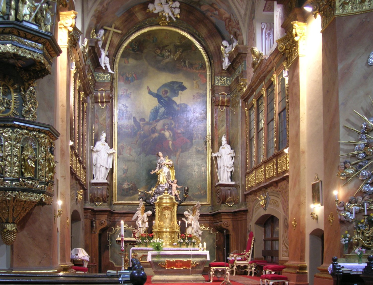 Jaroměřice nad Rokytnou. Interior of the St. Margaret Church.